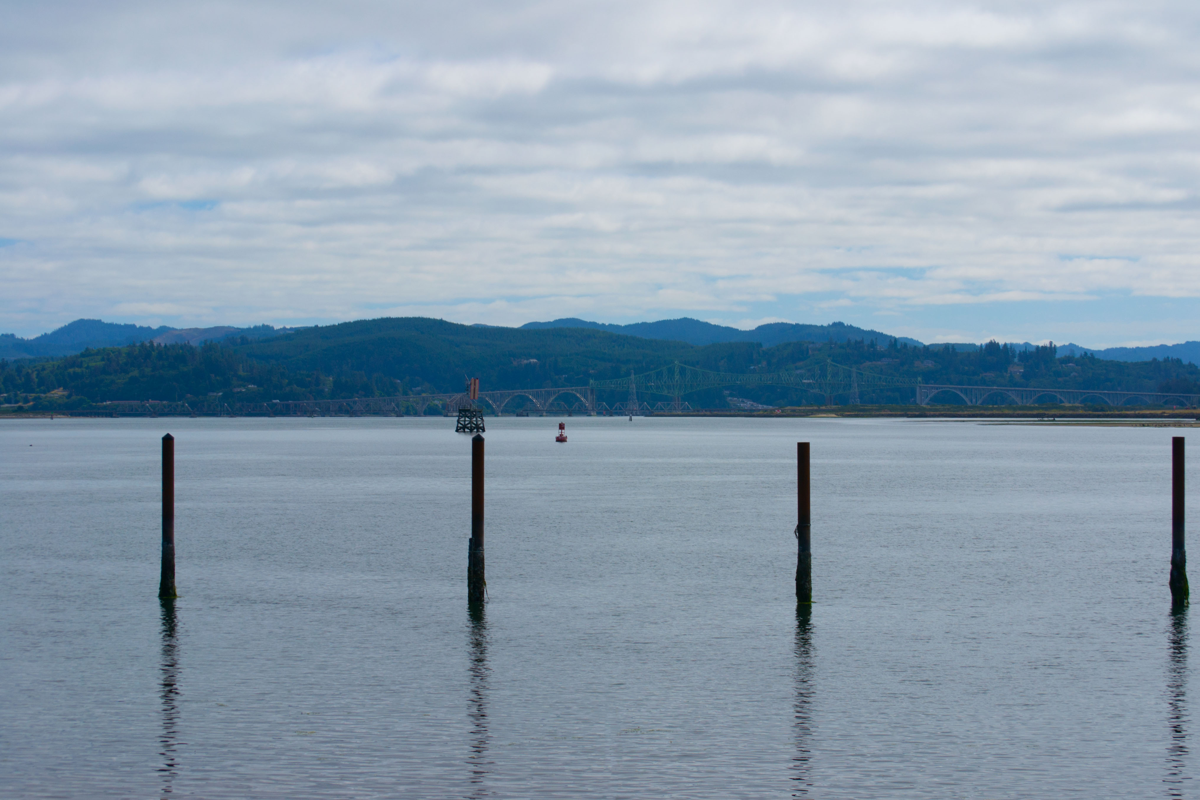 Looking east across Jordan Cove toward the Conde McCullough Memorial Bridge